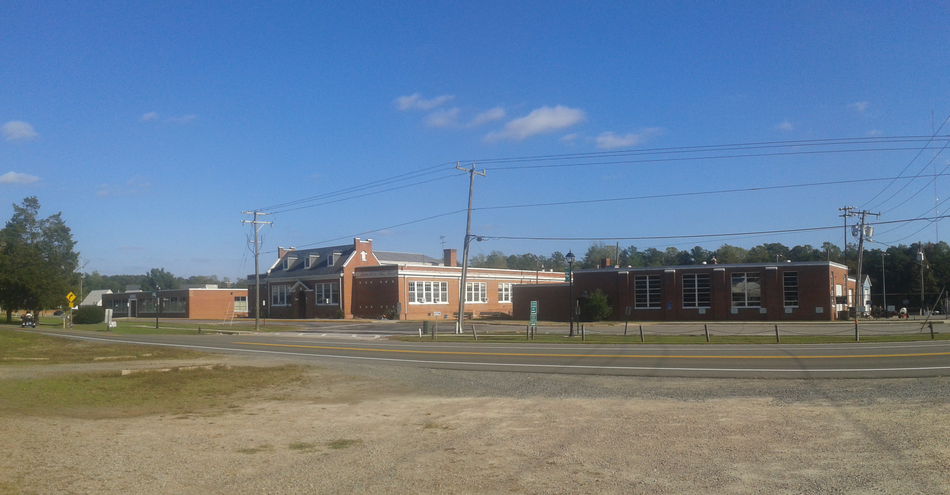 The former New Kent County High School building in New Kent, Virginia. The original building was built in 1930, and the campus is now used by Rappahannock Community College.